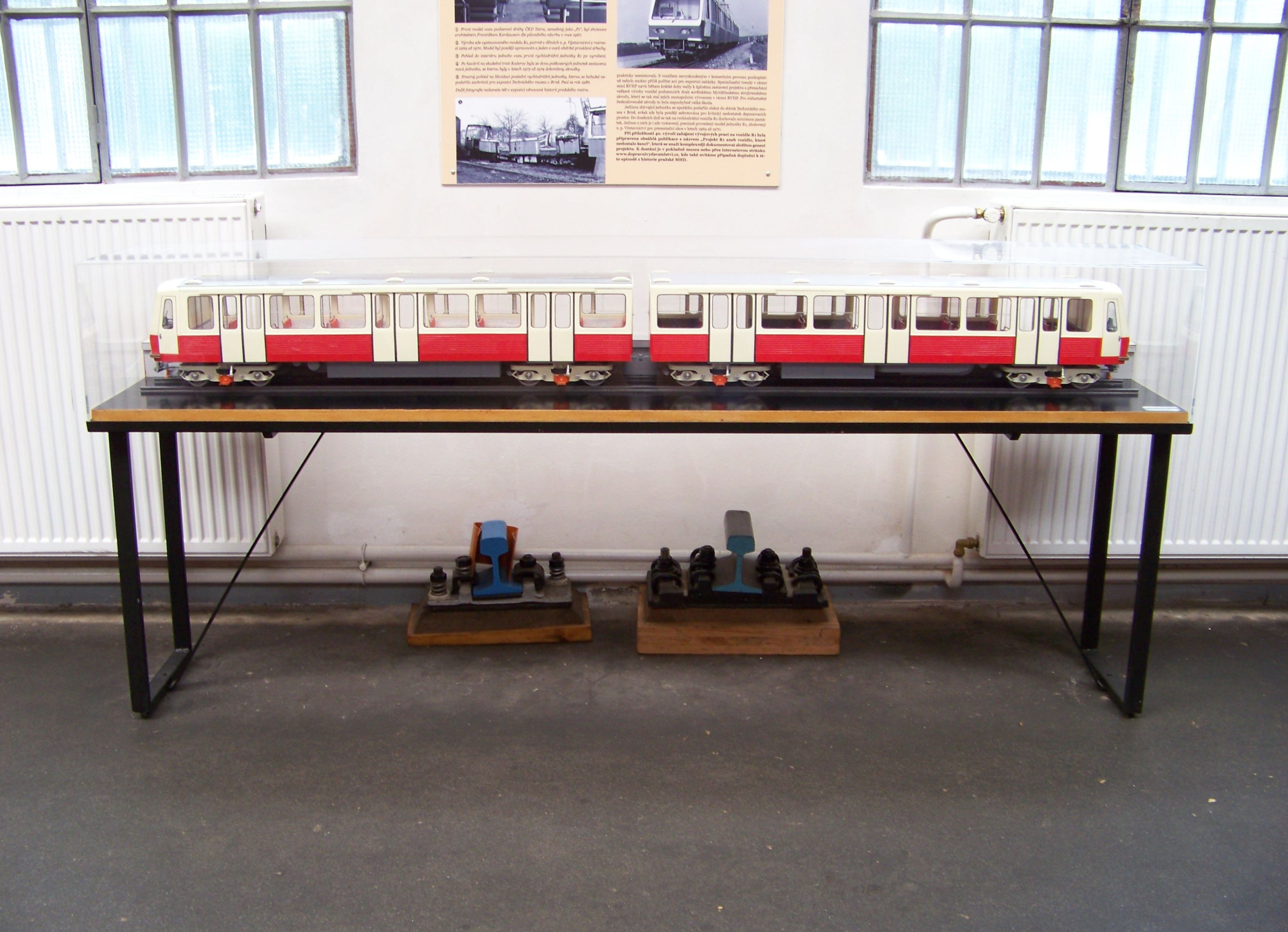 Prague-Střešovice, Czech Republic. Střešovice tram depot, Public Transport Museum. A model of light train Tatra R1 for the Prague Metro.